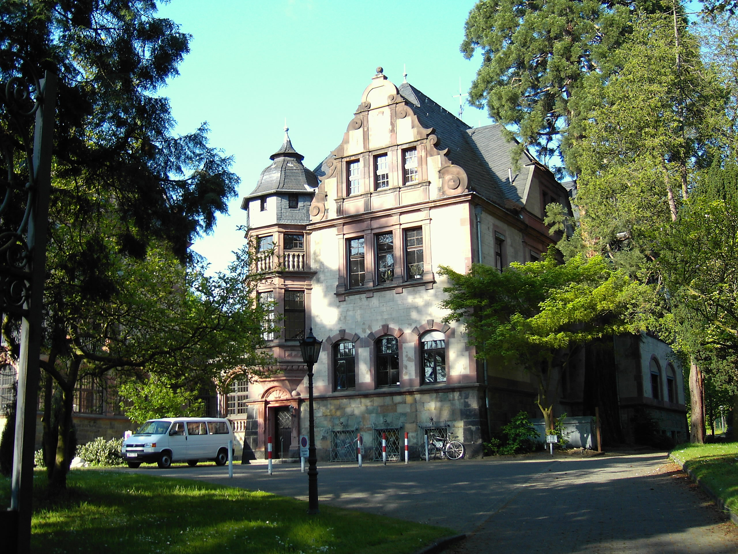 Physics center Bad Honnef with the “German Physical Society”.